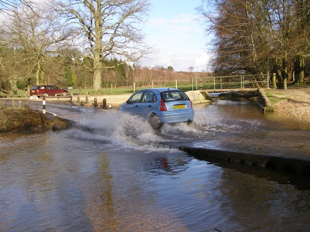 Fording Dockens Water, Moyles Court, New Forest During the drier months of the year the flow of Dockens Water passes beneath this concrete ford. Dockens Water drains the New Forest heathland to the east of here, and after heavy rain the stream swells like this. Also visible in this picture is a footbridge to allow pedestrians to cross without getting wet feet, and on the left are fairly recent wooden rails and 'dragons teeth' to control verge parking near this popular spot.